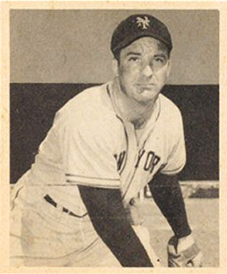 1948 Bowman baseball card of Ray Boat of the New York Giants #42. PD-not-renewed.